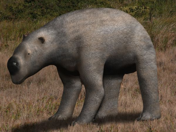 Diprotodon optatum, Pleistocene of Australia. Digital.